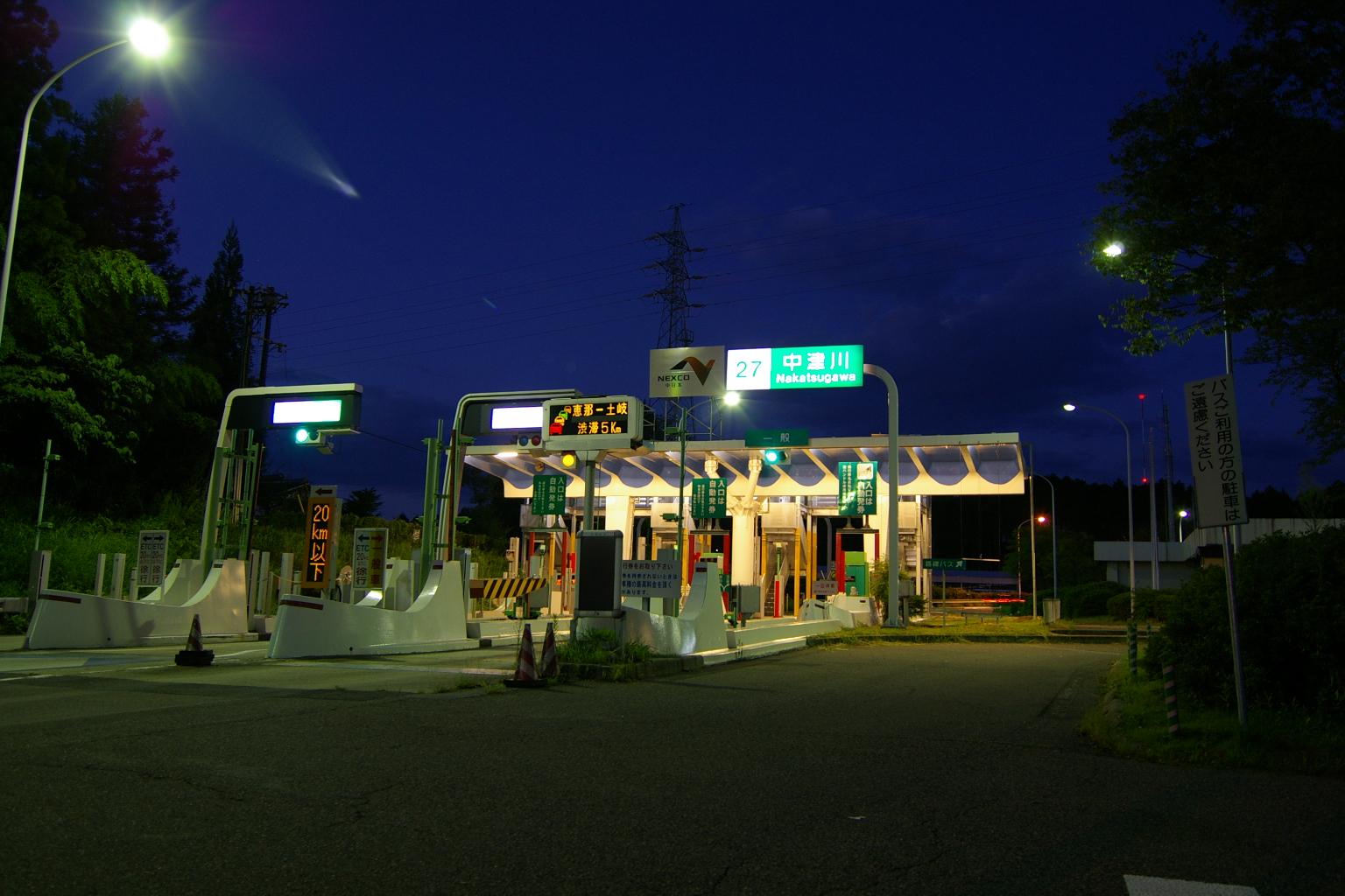 Nakatsugawa Interchange on Chuo Expressway in Japan